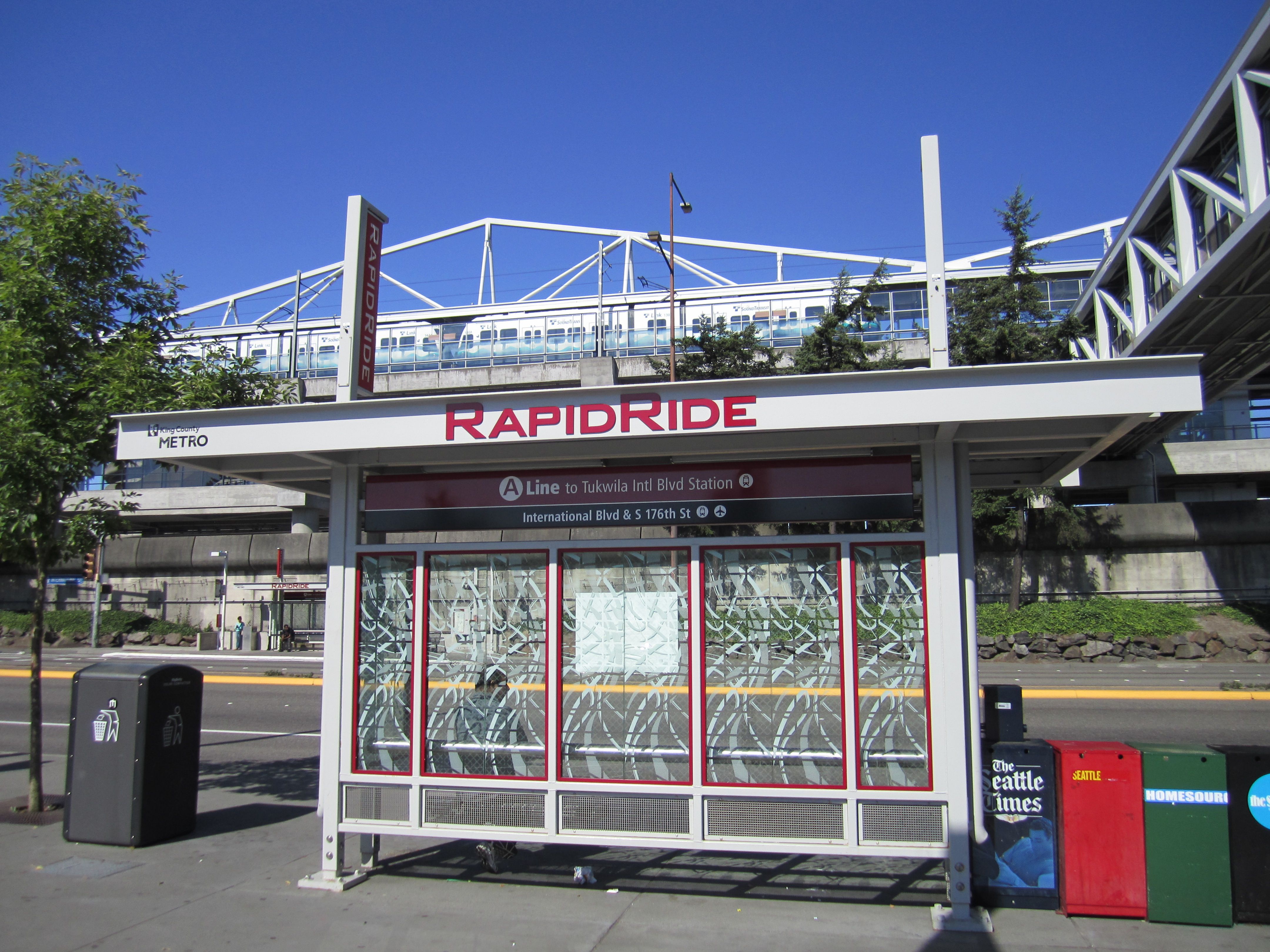 RapidRide shelter at SeaTac/Airport Station